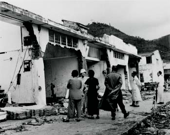 Typhoon Wanda in 1962